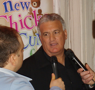 Joey Buttafuoco talks with Howard Stern people. Credit